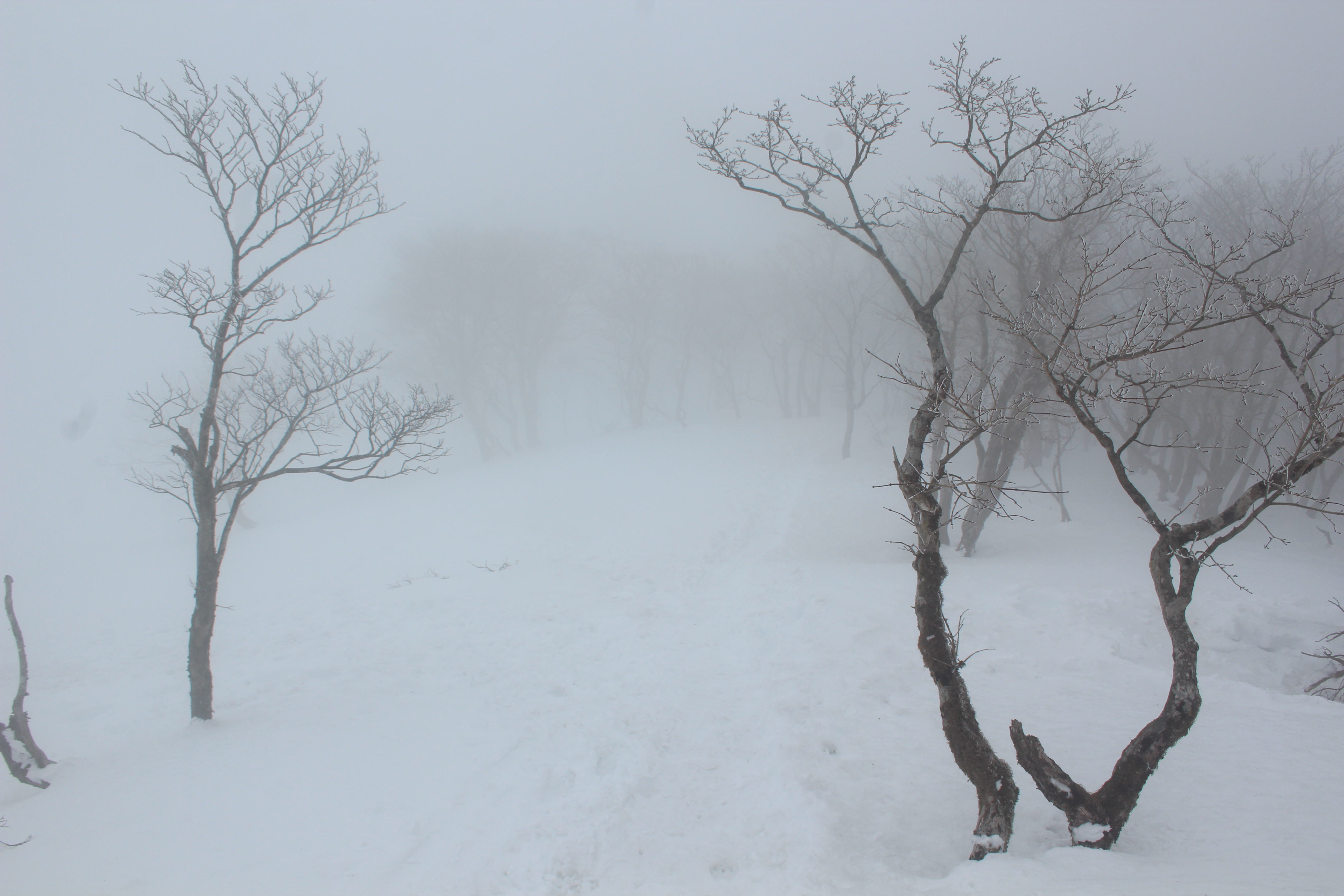 Situation of Ring wandering in Mount Oike, Higashiōmi, Shiga prefecture, Japan.